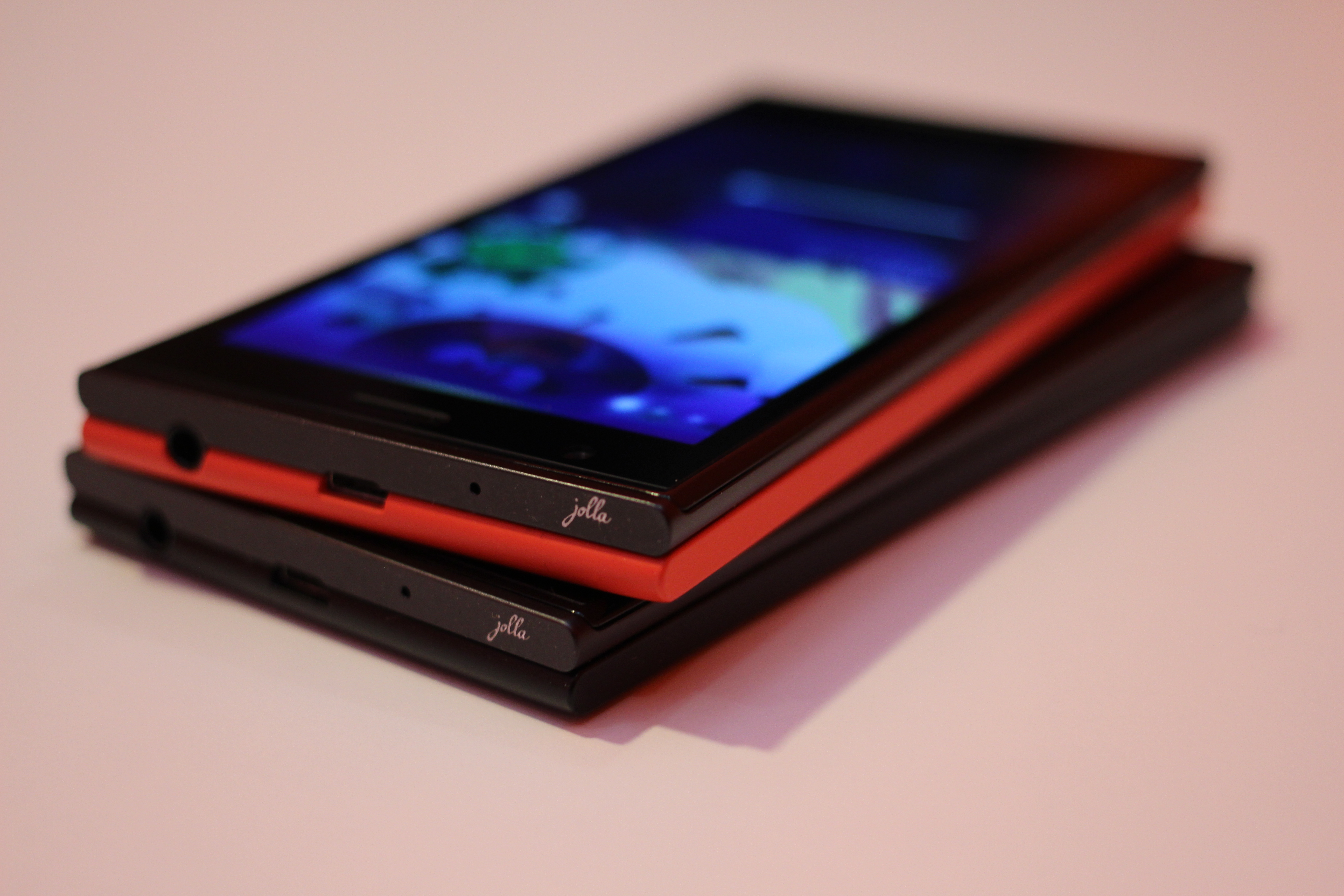 Two Jolla Phones